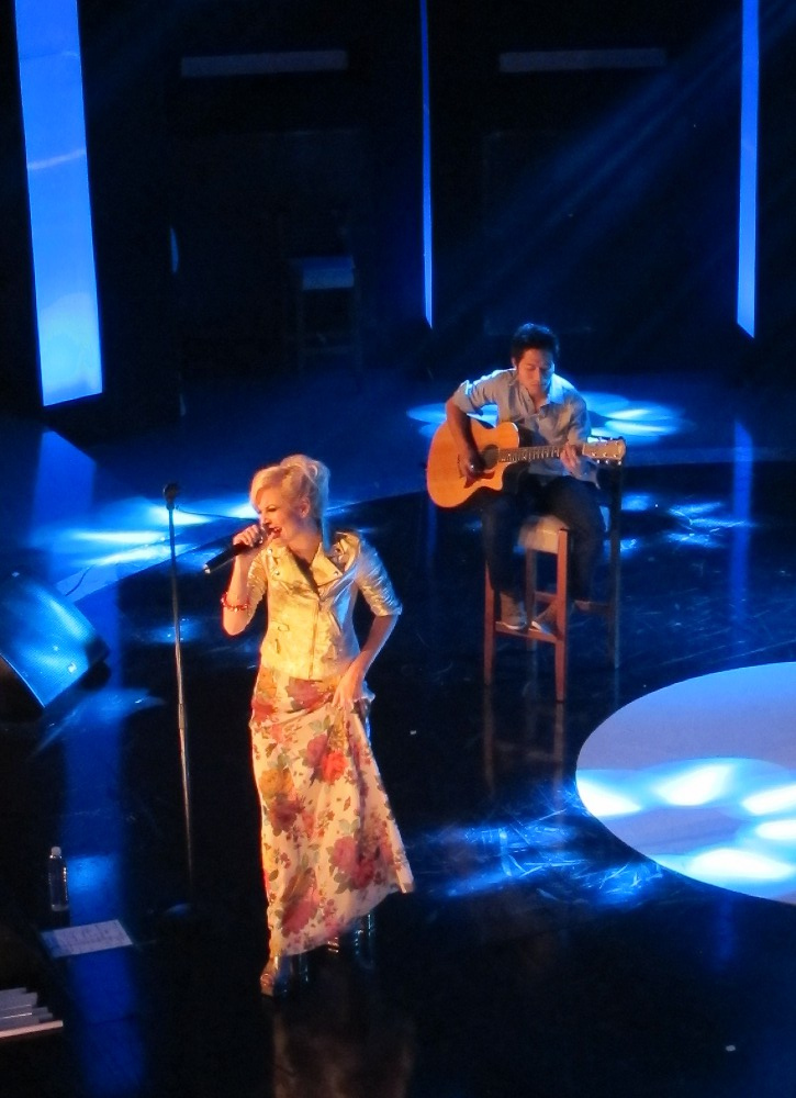 Pixie Lott performing live in Kuala Lumpur, Malaysia on the 26th of May, 2012 as part of her Young Foolish Happy Tour.